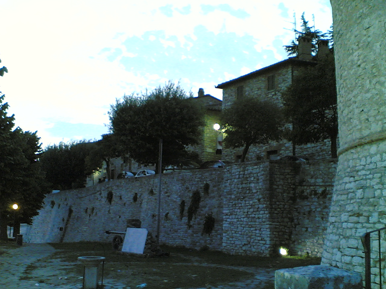 Walls of the medieval center of Corciano.